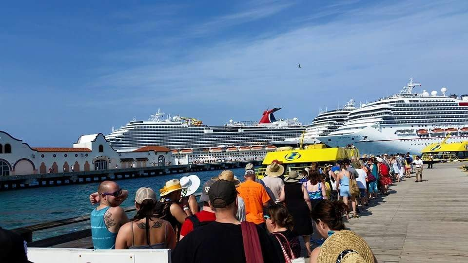 Multiple ships owned by Carnival Corp and PLC at Puerta Maya port in Cozumel, Mexico